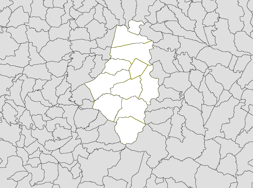 Barrios in the municipality. Map scale is 1:200,000